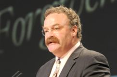 Rev. Matthew C. Harrison, President-Elect of the Lutheran Church--Missouri Synod